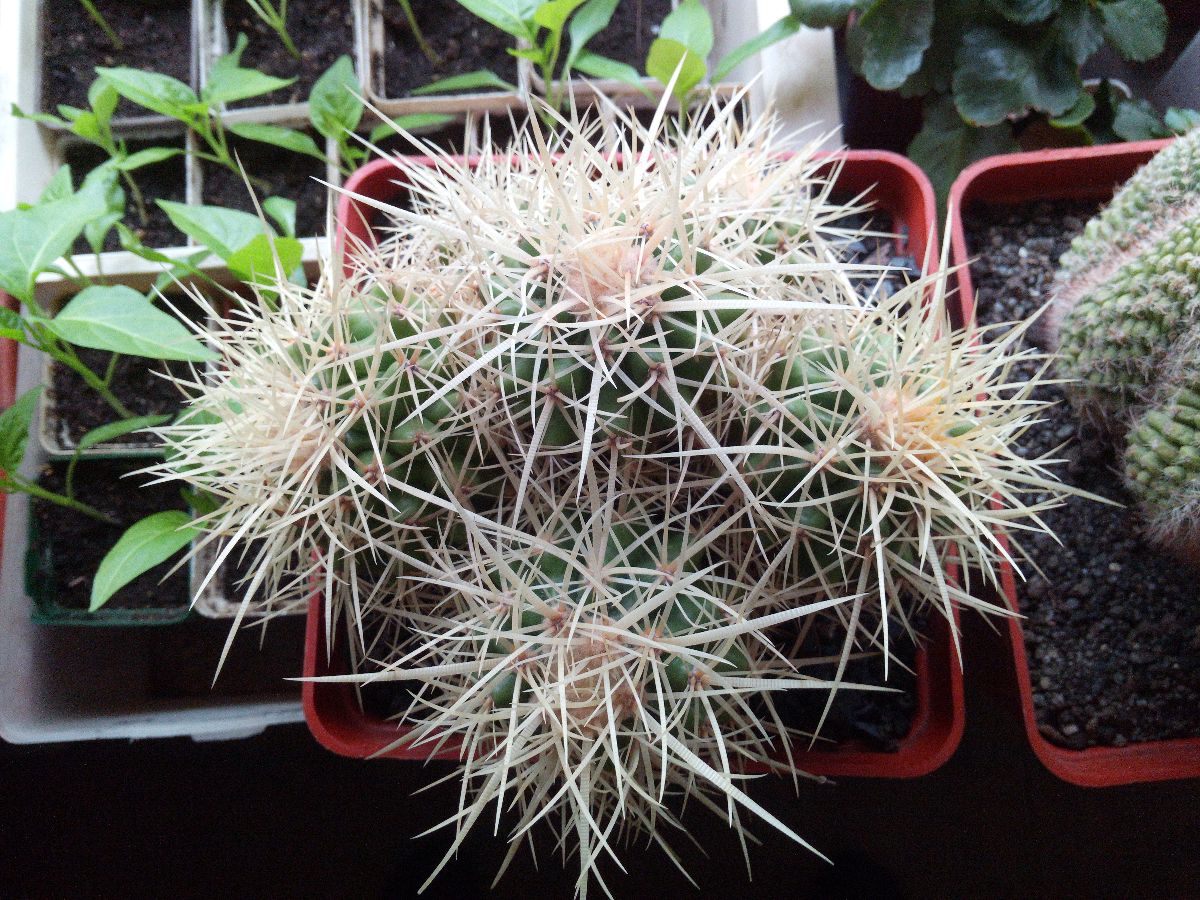 Echinocactus grusonii